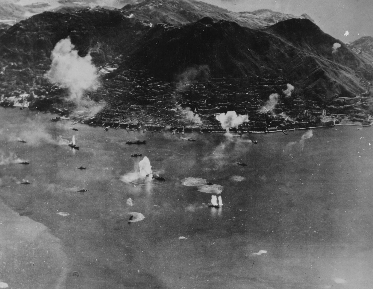 Hong Kong harbour, Hong Kong under attack by planes form an Essex Class Carrier of Vice Admiral John S. McCain's Fast Carrier Task Force. Bombs can be seen hitting ships on the left of photo. Smoke pours up from several places along the waterfront. The Dock Yard was one of the targets for that day. 16 January 1945.